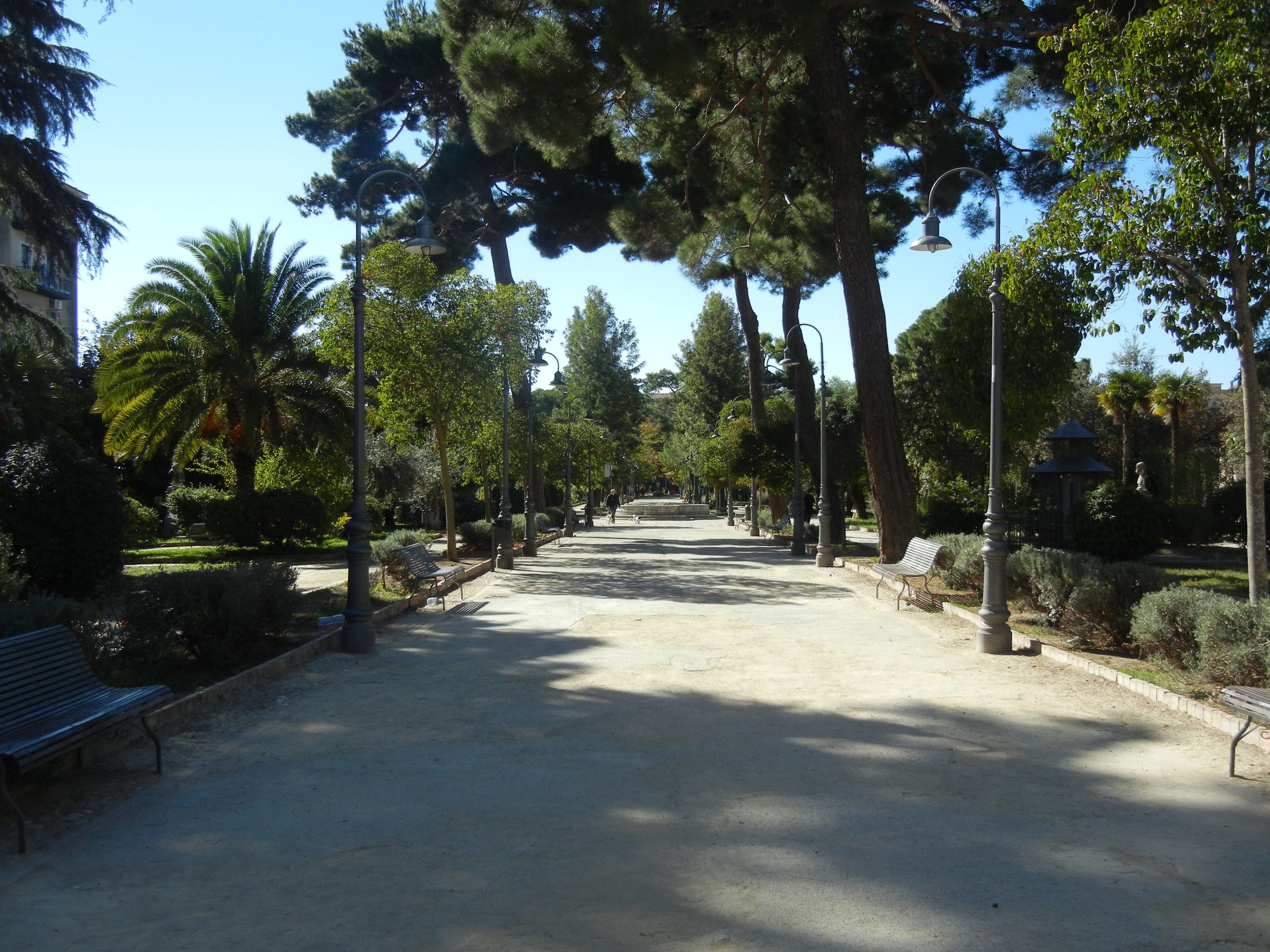 Main avenue in Villa Amedeo, public garden in Caltanissetta, Italy.